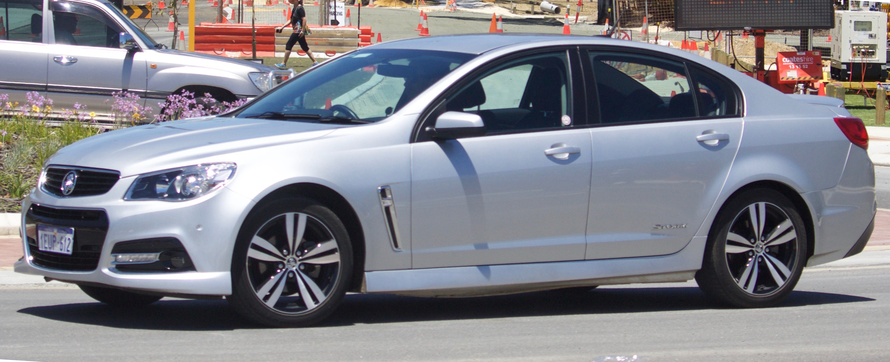 2015 Holden Commodore (VF MY15) SV6 Storm sedan. Photographed in Burswood, Western Australia, Australia.